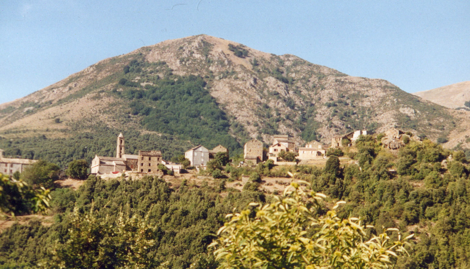 Mount San Cervone and Carticasi, Castagniccia, Corsica